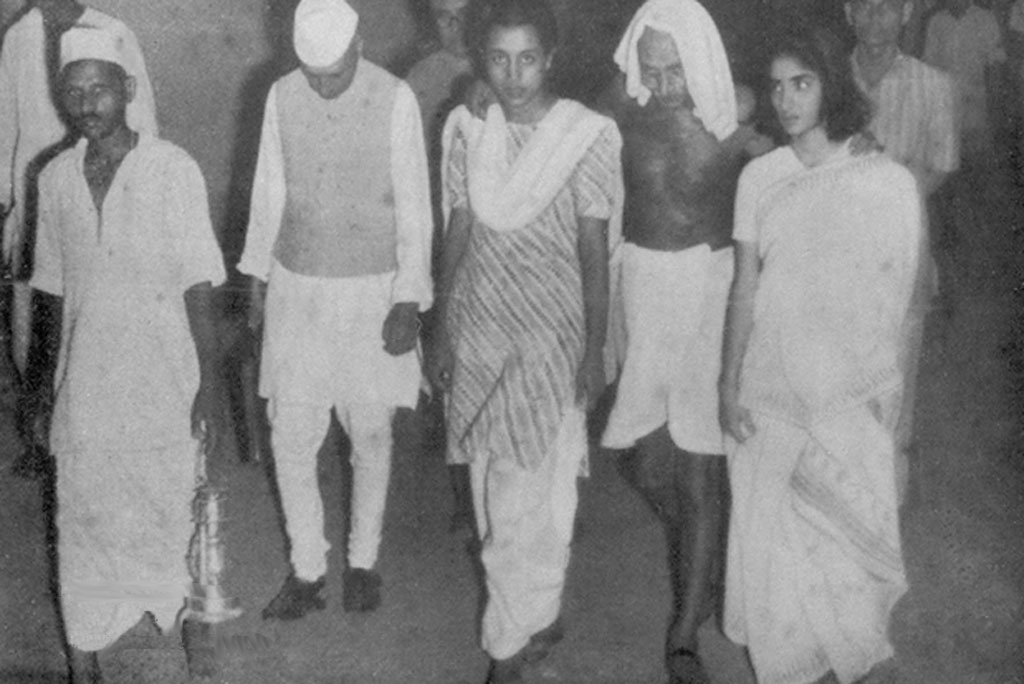 Gandhi with Nehru and Indira. Late 1930s.